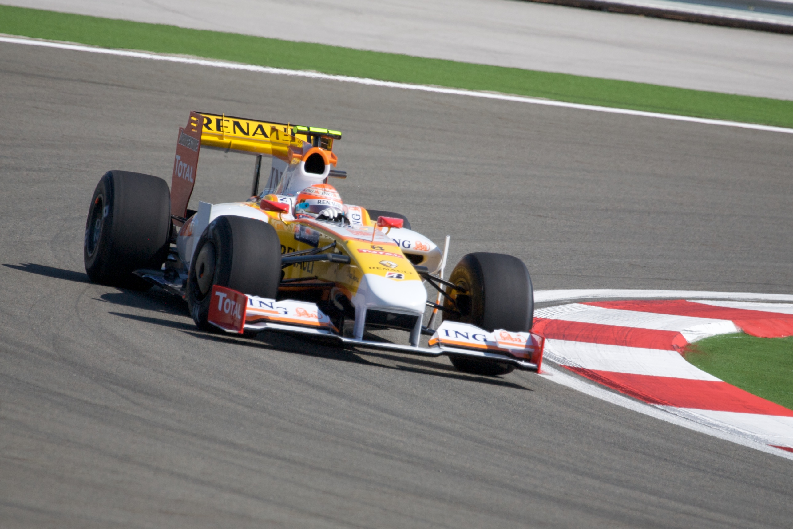 Nelson Angelo Piquet driving for Renault F1 at the 2009 Turkish Grand Prix.